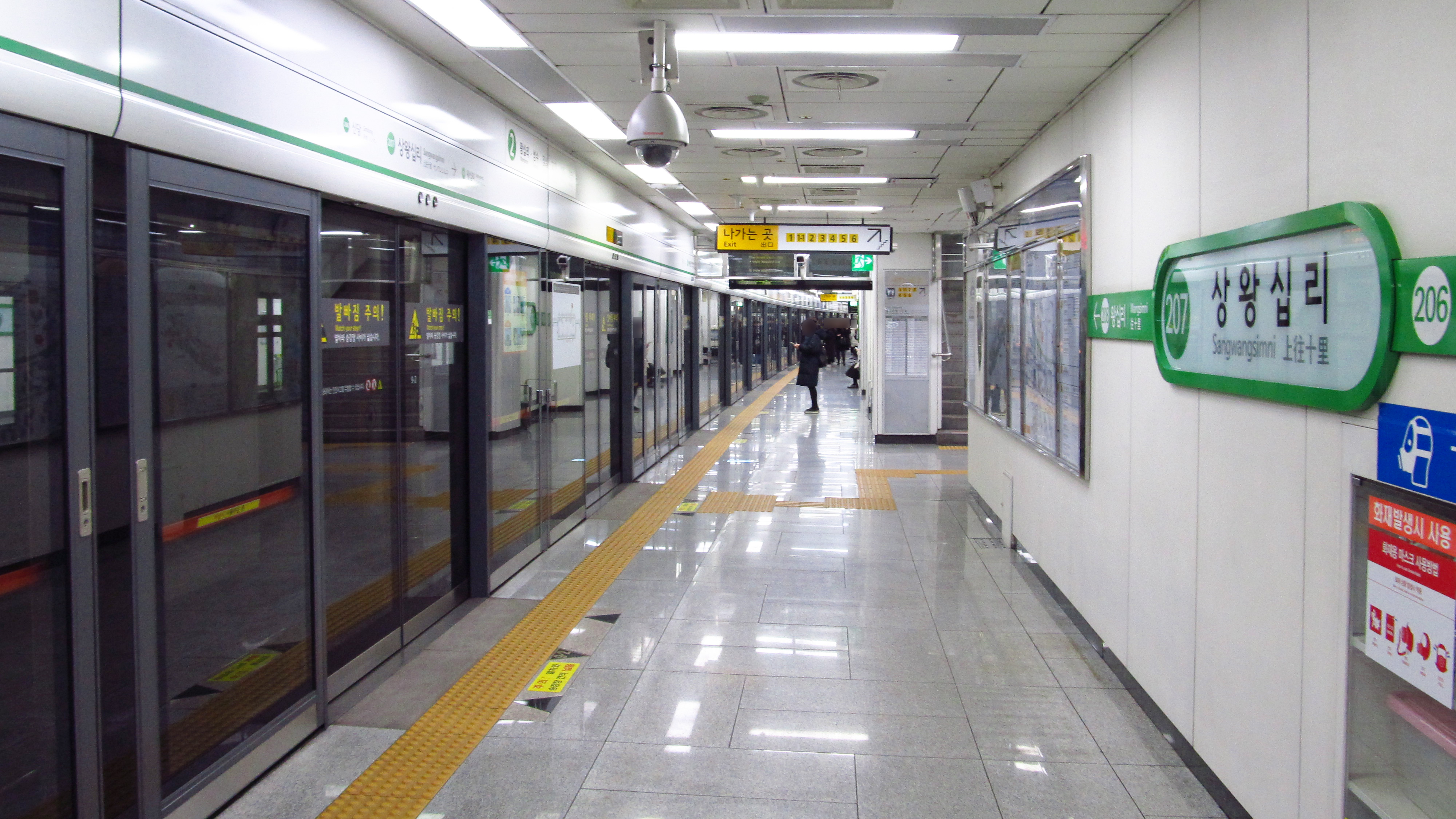 The platform at Sangwangsimni Station on Seoul Subway Line 2 in Seongdong-gu, Seoul, Republic of Korea(South Korea)